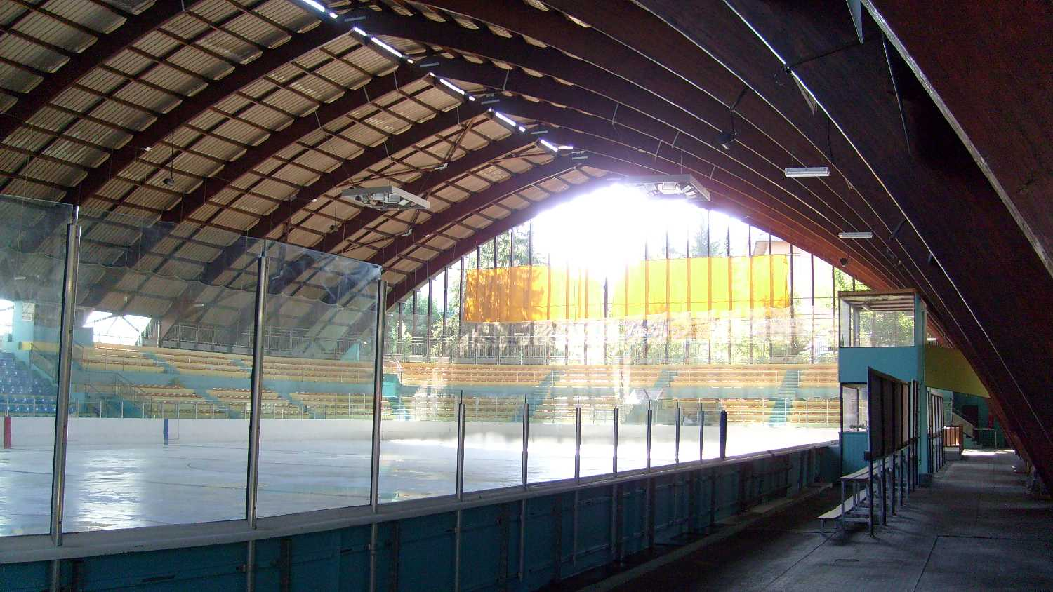 Gap( Hautes-Alpes). Ice-skating rink.